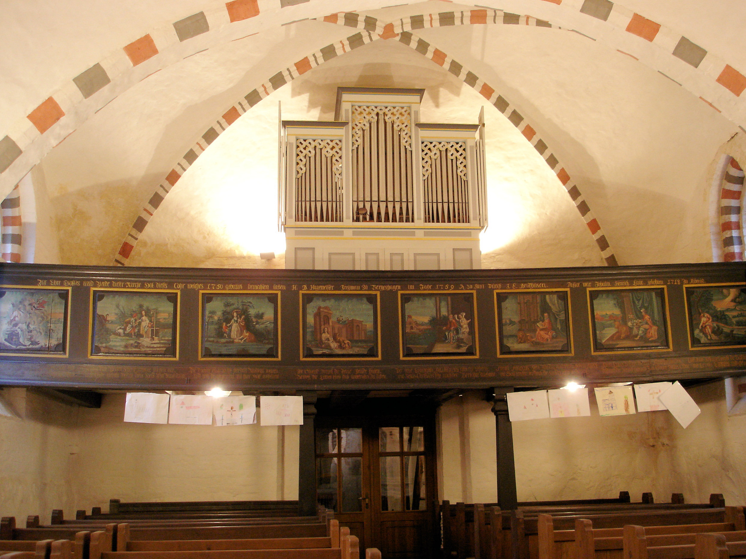 Church in Lambrechtshagen, gallery with organ